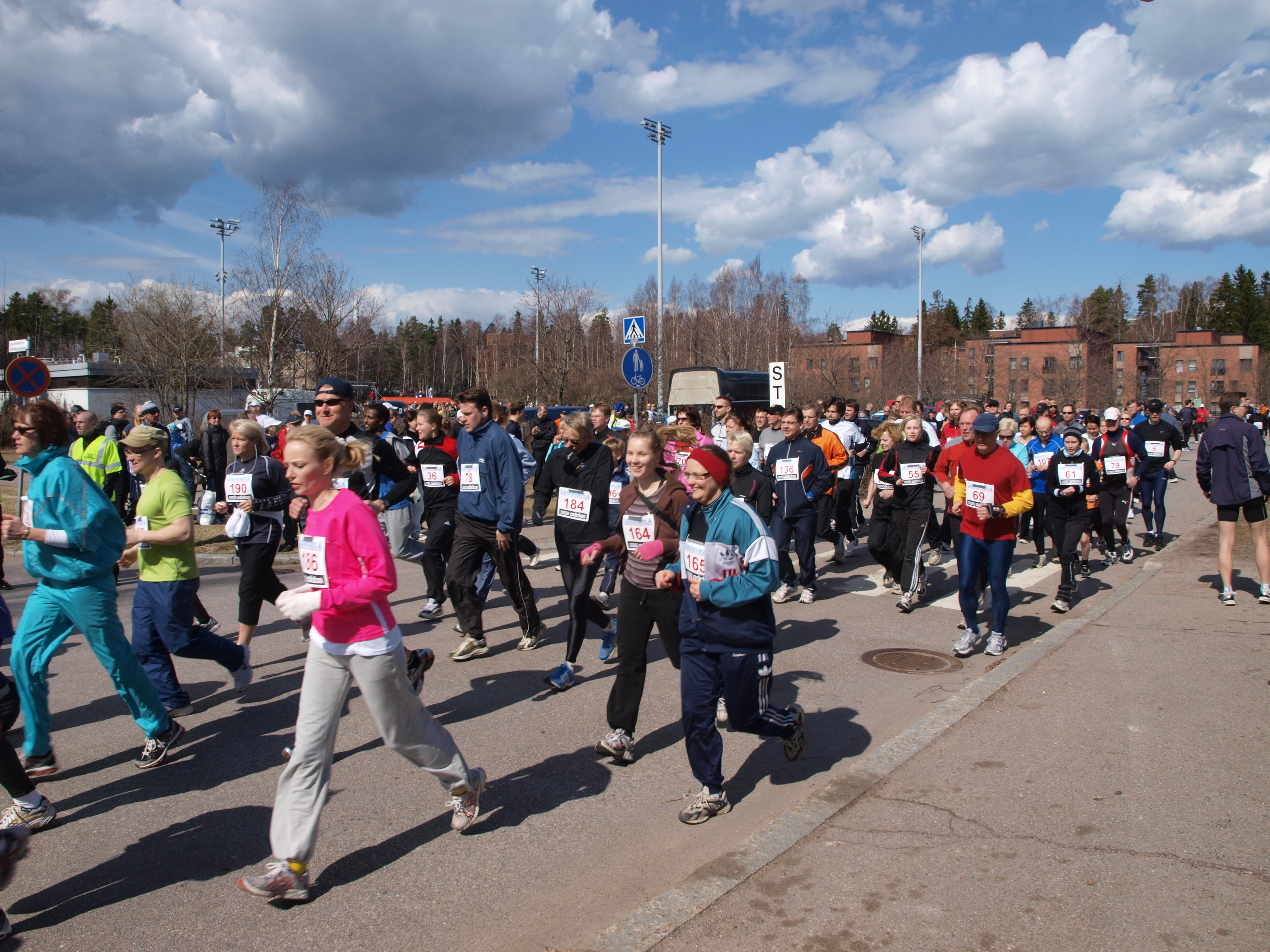 A group of men and women participating in the Länsiväyläjuoksu event in Otaniemi, Espoo, Finland.